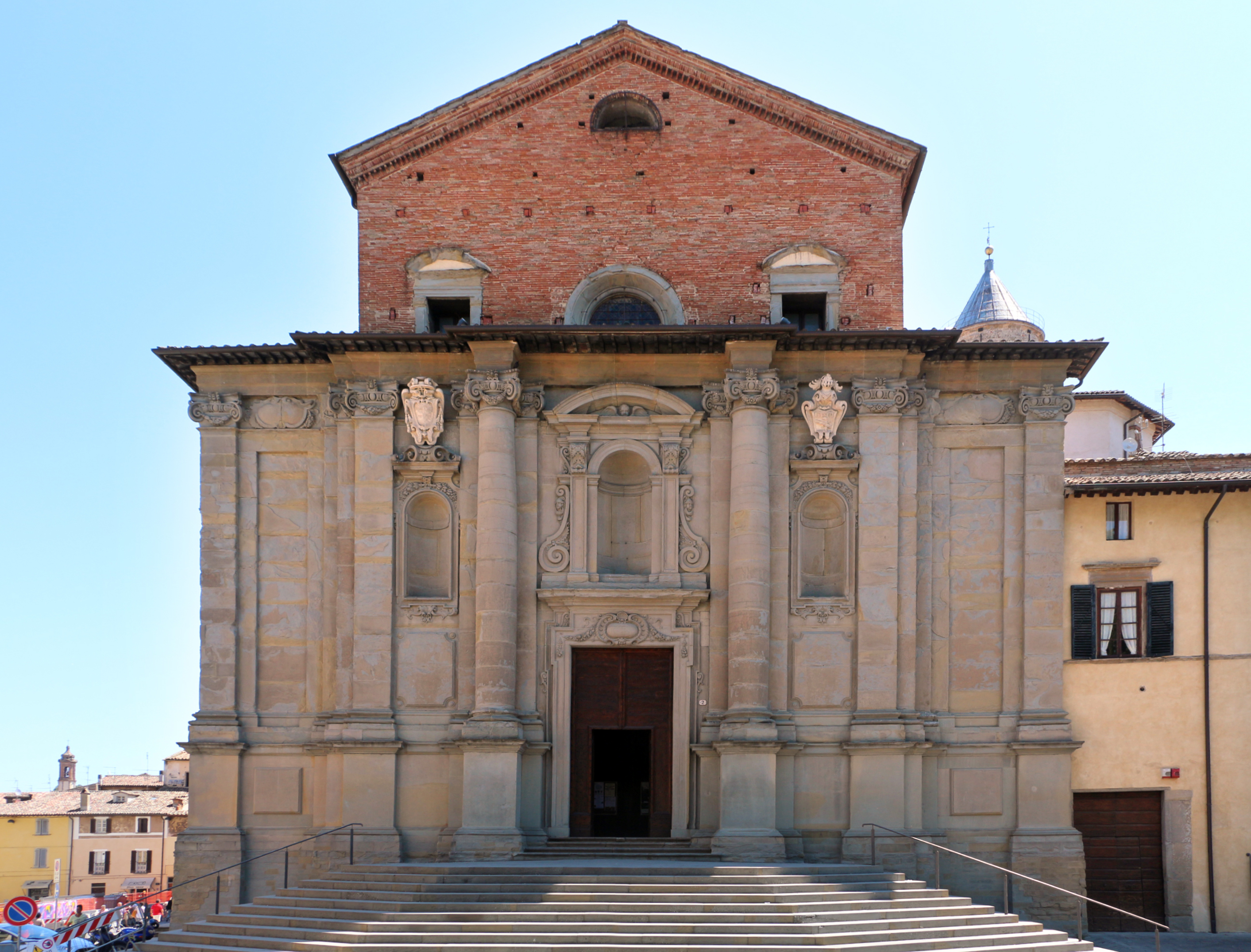 Duomo (Città di Castello)